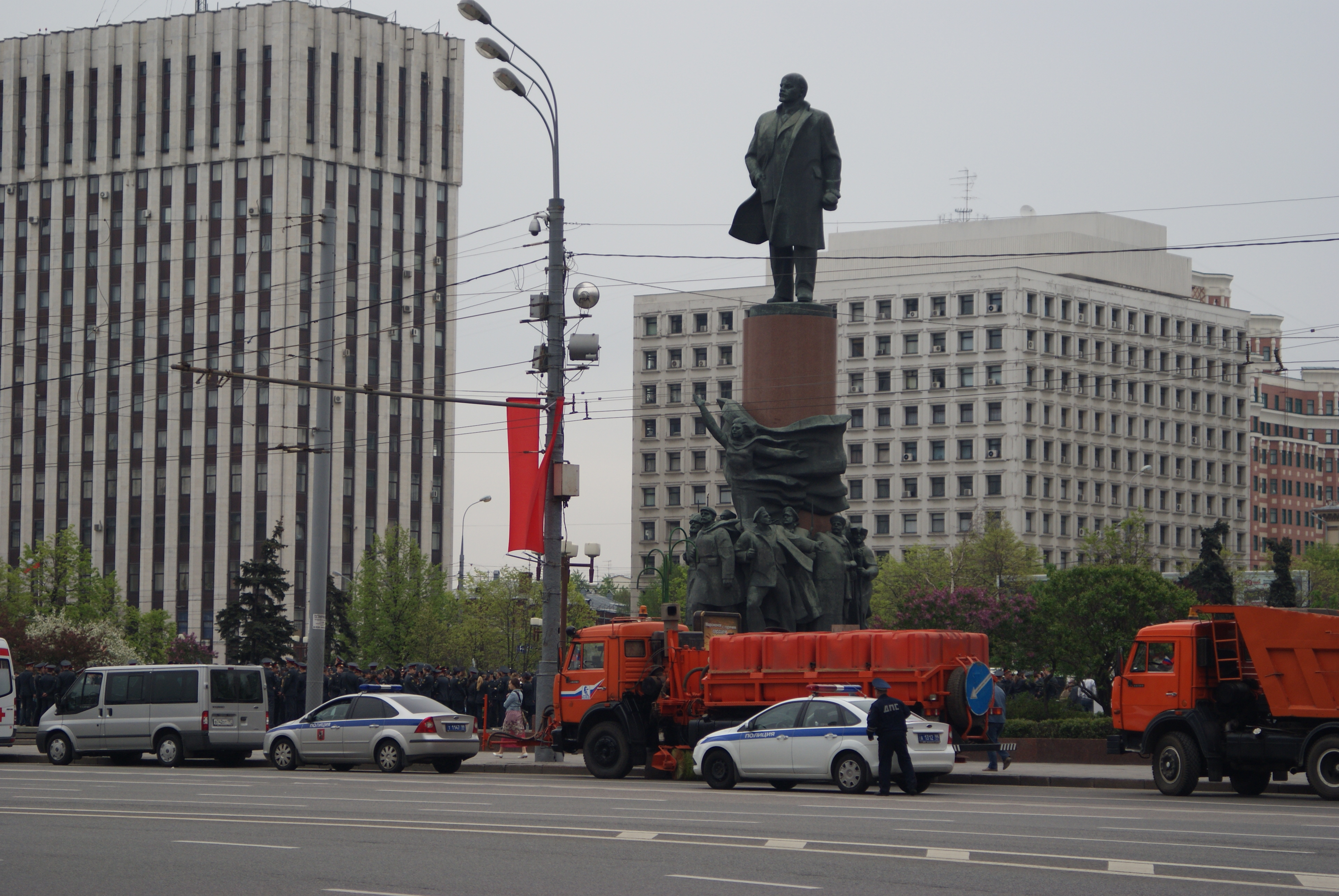 “March of a Million” rally